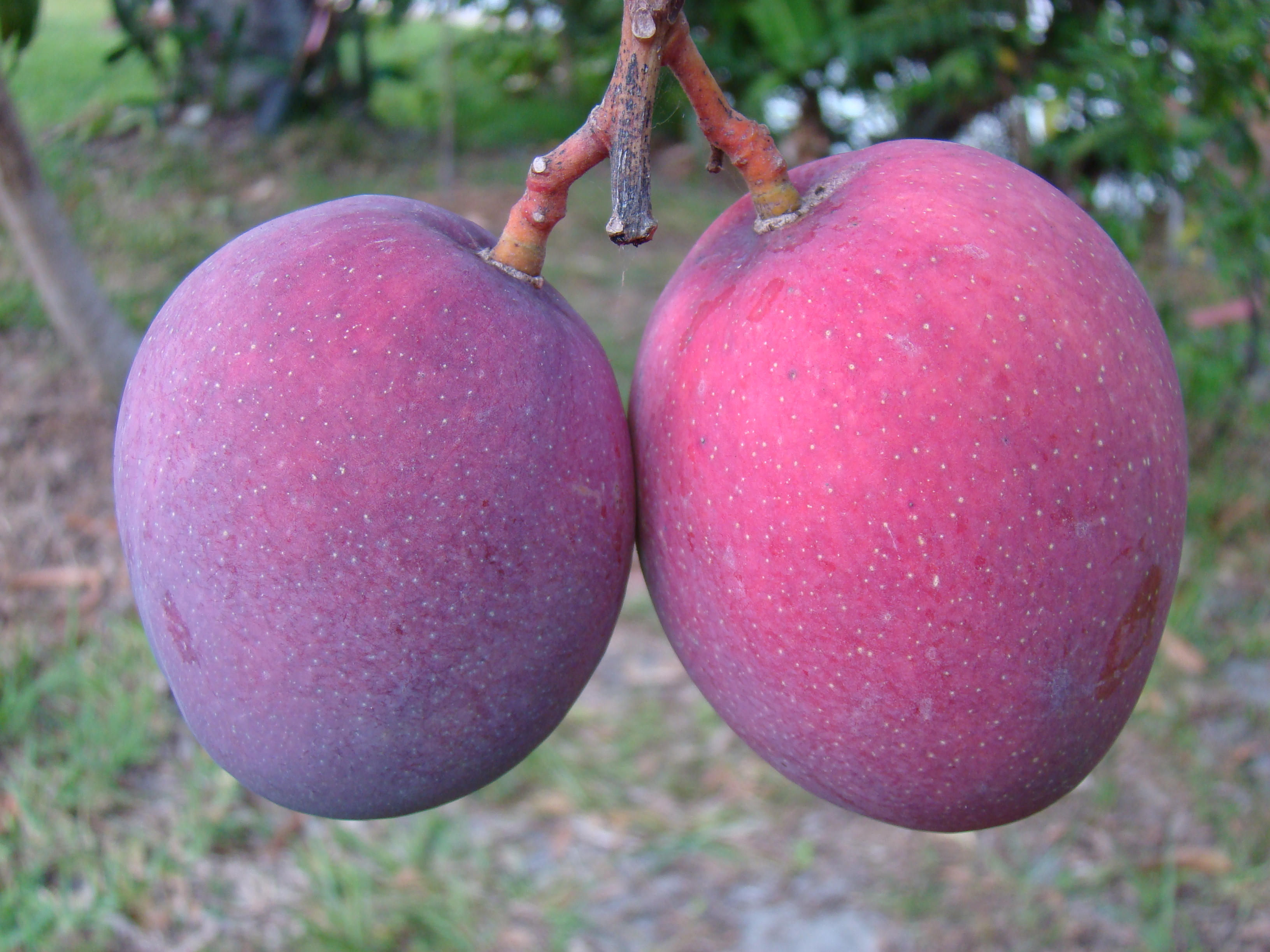 A pair of Tommy Atkins mangoes hangs from a tree in the Ghosh Grove in Rockledge, Florida.